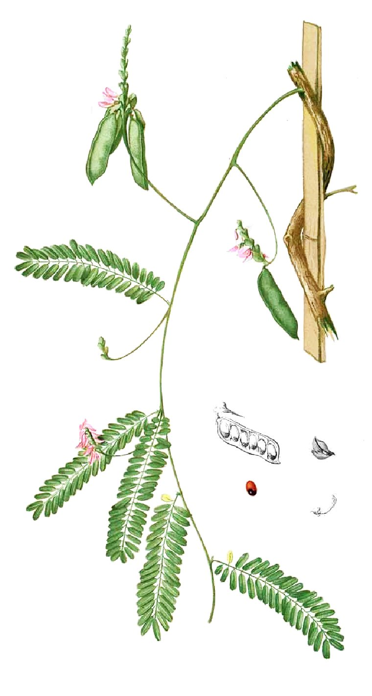 Plate from book